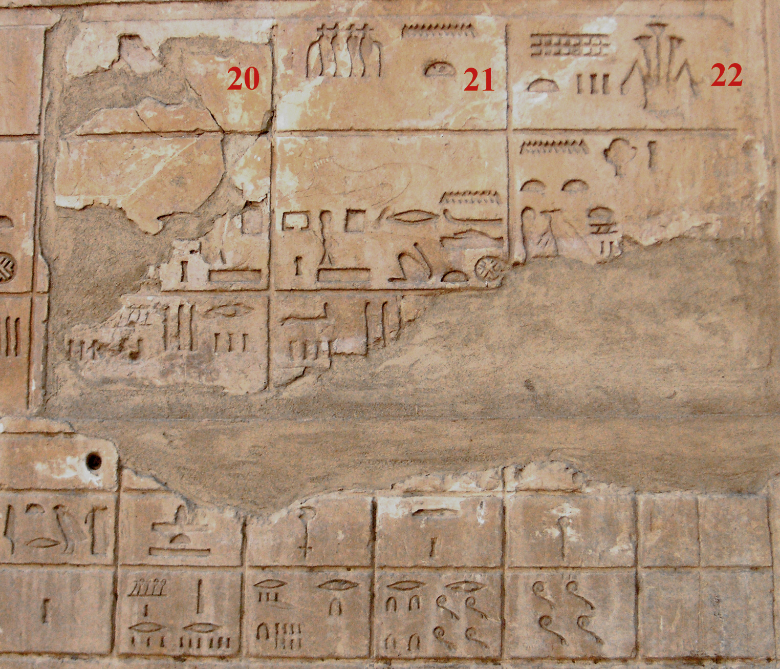 Nomes of Lower Egypt, columns 20-22 of list of Sesostris I.